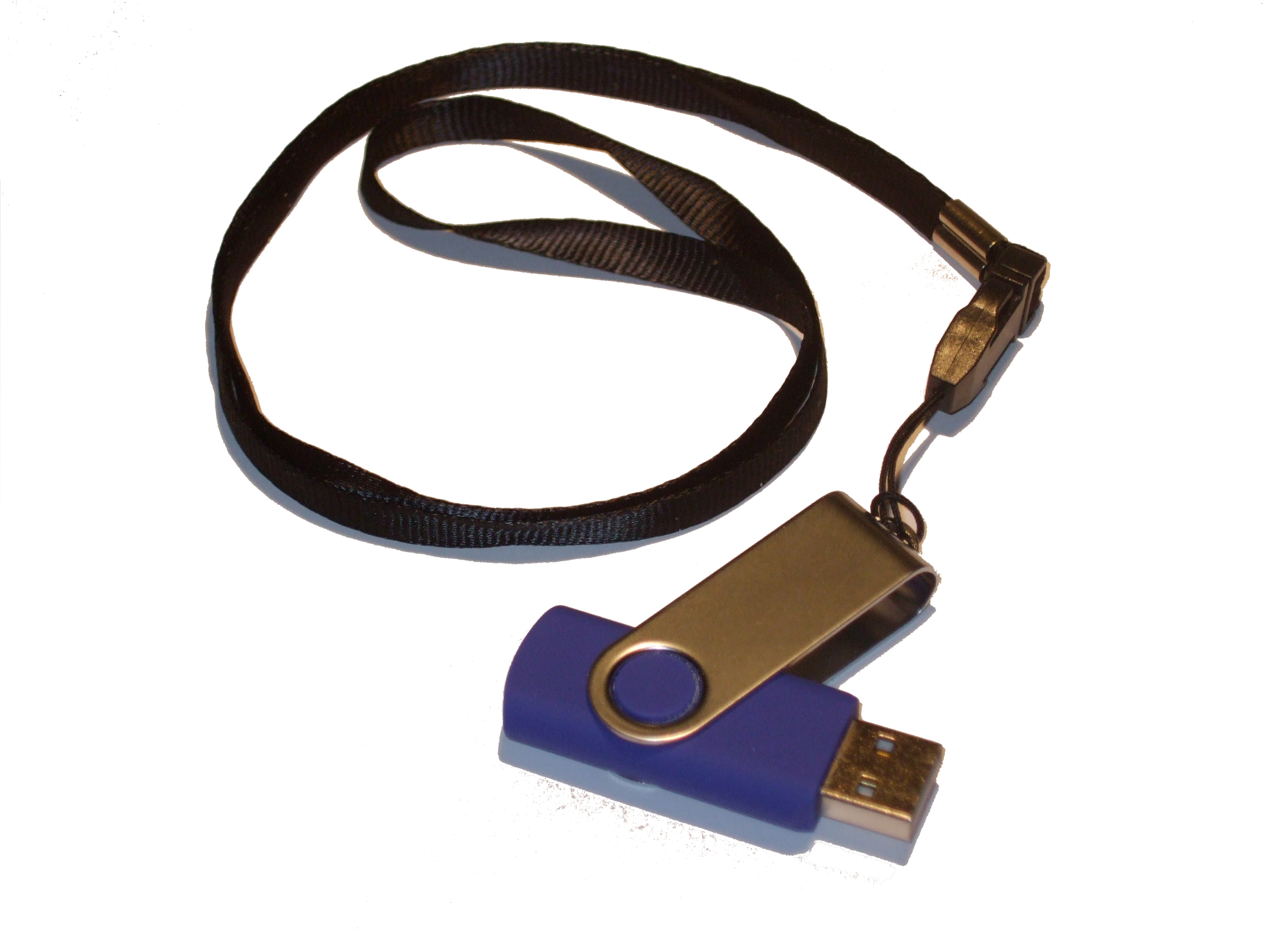 USB stick including string and undetachable cap